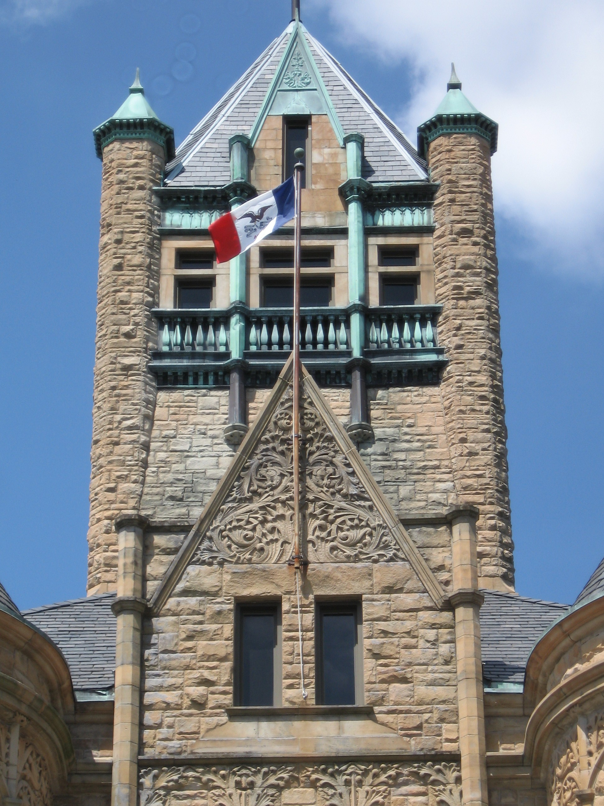 Courthouse tower, johnson county, Iowa, on the NRHP